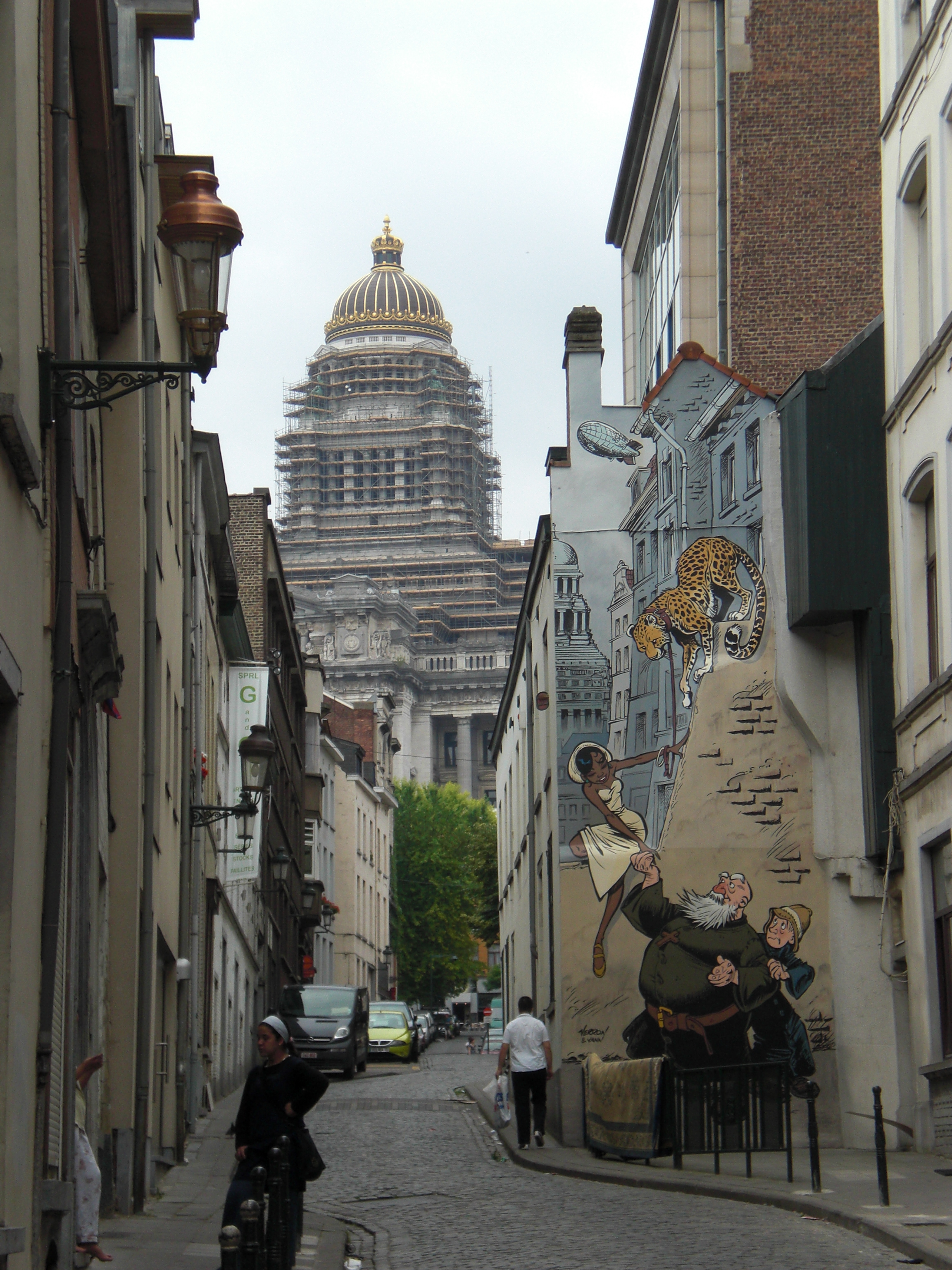 Corthhouse of Brussels.